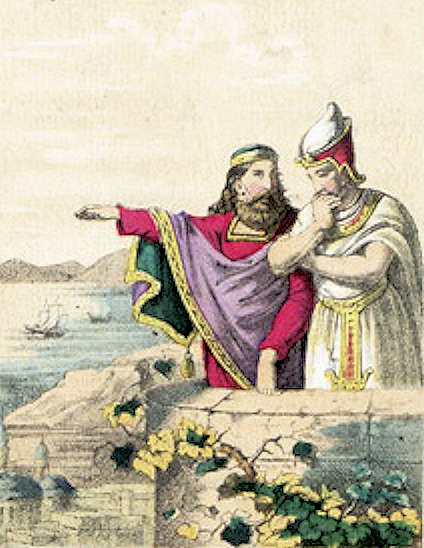 Polykrates with Pharao Amasis II